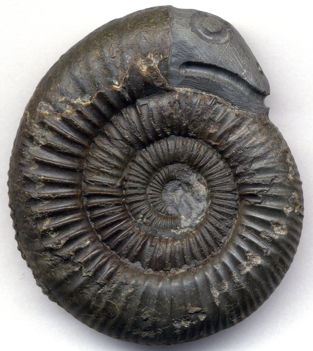 Snakestone (5.0 cm across) - a Dactylioceras commune ammonite with carved snake head, from the Yorkshire coast of England. Ammonites from the Whitby area of England have inspired interesting legends & folklore. St. Hilda (614-680 A.D.), an early abbess of Whitby, is said to have cleared the area of snakes by cutting off their heads & throwing them over the cliffs. Whitby locals have been carving snake heads on genuine ammonite fossils for centuries. These “snakestones” have been valued as lucky charms and were perceived to have medical value at one time. Many rocks, fossils, and minerals were long ago considered by superstitious minds to be curatives. Classification: Animalia, Mollusca, Cephalopoda, Ammonoidea, Ammonitina, Dactylioceratidae Stratigraphy & age: Whitby Formation, Toarcian Stage, upper Lower Jurassic. Locality: Yorkshire coast, England. Ammonites are common & conspicuous fossils in Mesozoic marine sedimentary rocks. Ammonites are an extinct group of cephalopods - they’re basically squids in coiled shells. The living chambered nautilus also has a squid-in-a-coiled-shell body plan, but ammonites are a different group. Ammonites get their name from the coiled shell shape being reminiscent of a ram’s horn. The ancient Egyptian god Amun (“Ammon” in Greek) was often depicted with a ram’s head & horns. Pliny’s Natural History, book 37, written in the 70s A.D., refers to these fossils as “Hammonis cornu” (the horn of Ammon), and mentions that people living in northeastern Africa perceived them as sacred. Pliny also indicates that ammonites were often pyritized.